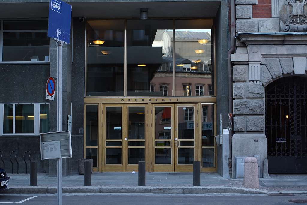 The following Ministries are located at Grubbegata 1: The Ministry of Fisheries and Coastal Affairs.